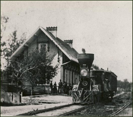 Harkness Locomotive at first Glendale depot